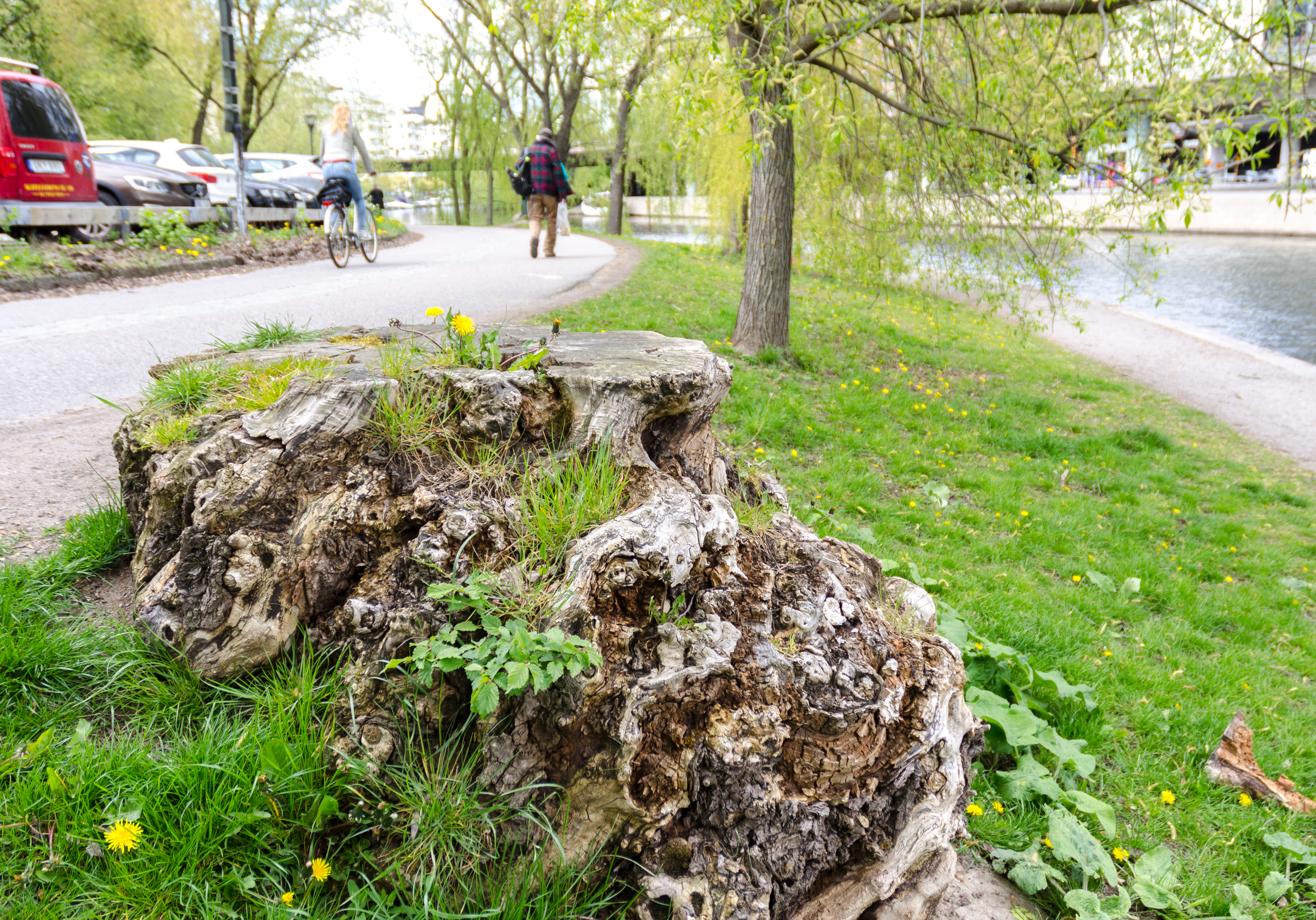 Tree stumps from wych elm (ulmus glabra) in Stockholm in June 2020.